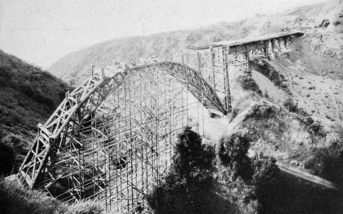 The Dolan Creek Bridge was a three-pinned arch designed with redwood timber members. The arch span was 180 ft in length and over 150 ft tall. The bridge was built by H.L. McCready and designed by T.K. May. This was one of the first timber bridges built by Caltrans that used metal ring connectors to transfer the load between the members (making the joints stronger than the members). The bridge sections were prefabricated in Monterey and then shipped to the site for assembly. In 1961, the bridge was replaced by a precast concrete girder bridge.